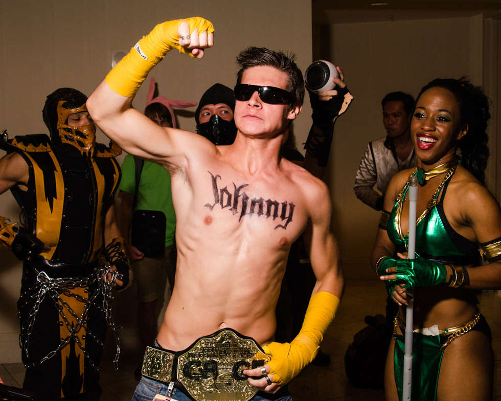 Taken on September 1, 2012 Downtown, Atlanta, GA, US Nikon D7000